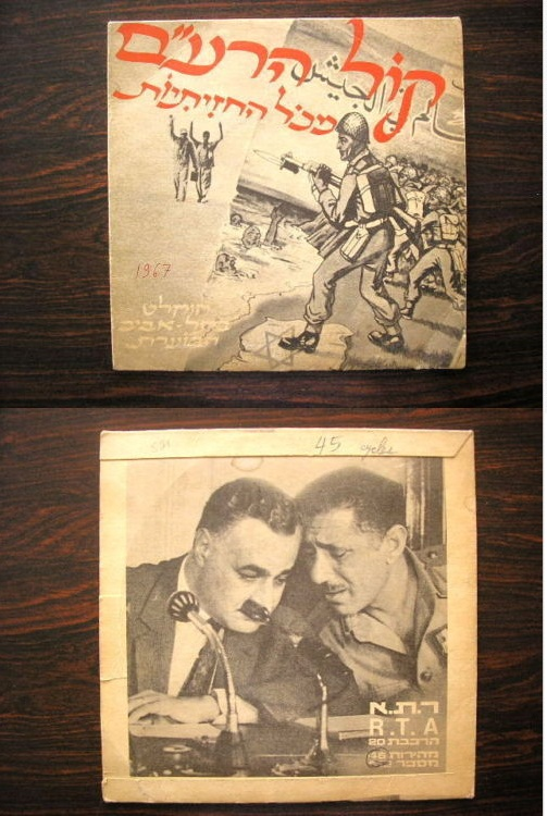 Israel 1967 7" record lp Kol Haraam anti Egypt propaganda RTA ltd. six day war